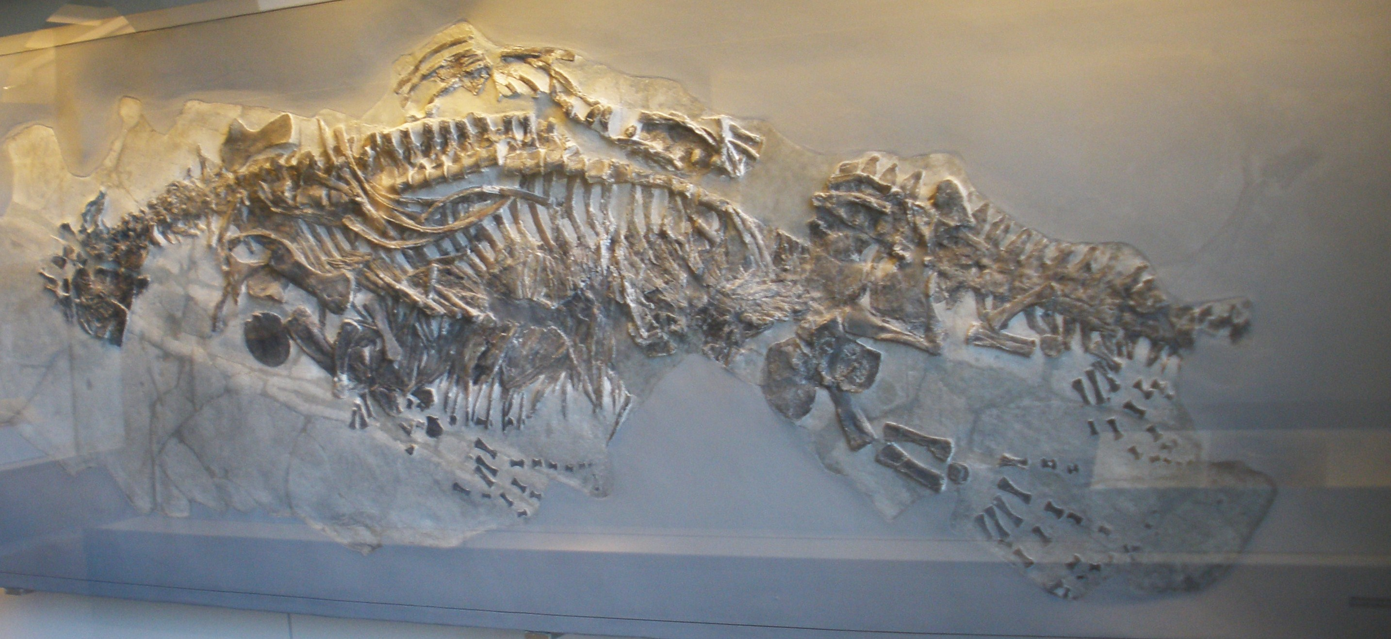 fossil of Helveticosaurus